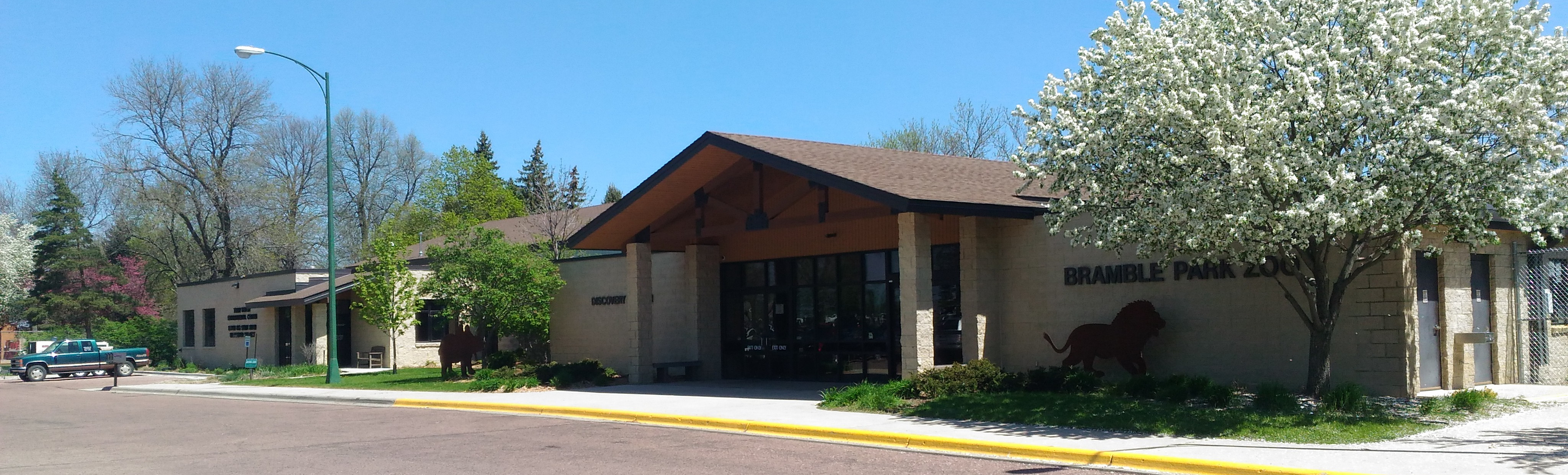 The entrance to Bramble Park Zoo, in Watertown, South Dakota. Taken with a mobile phone 11 May 2017.